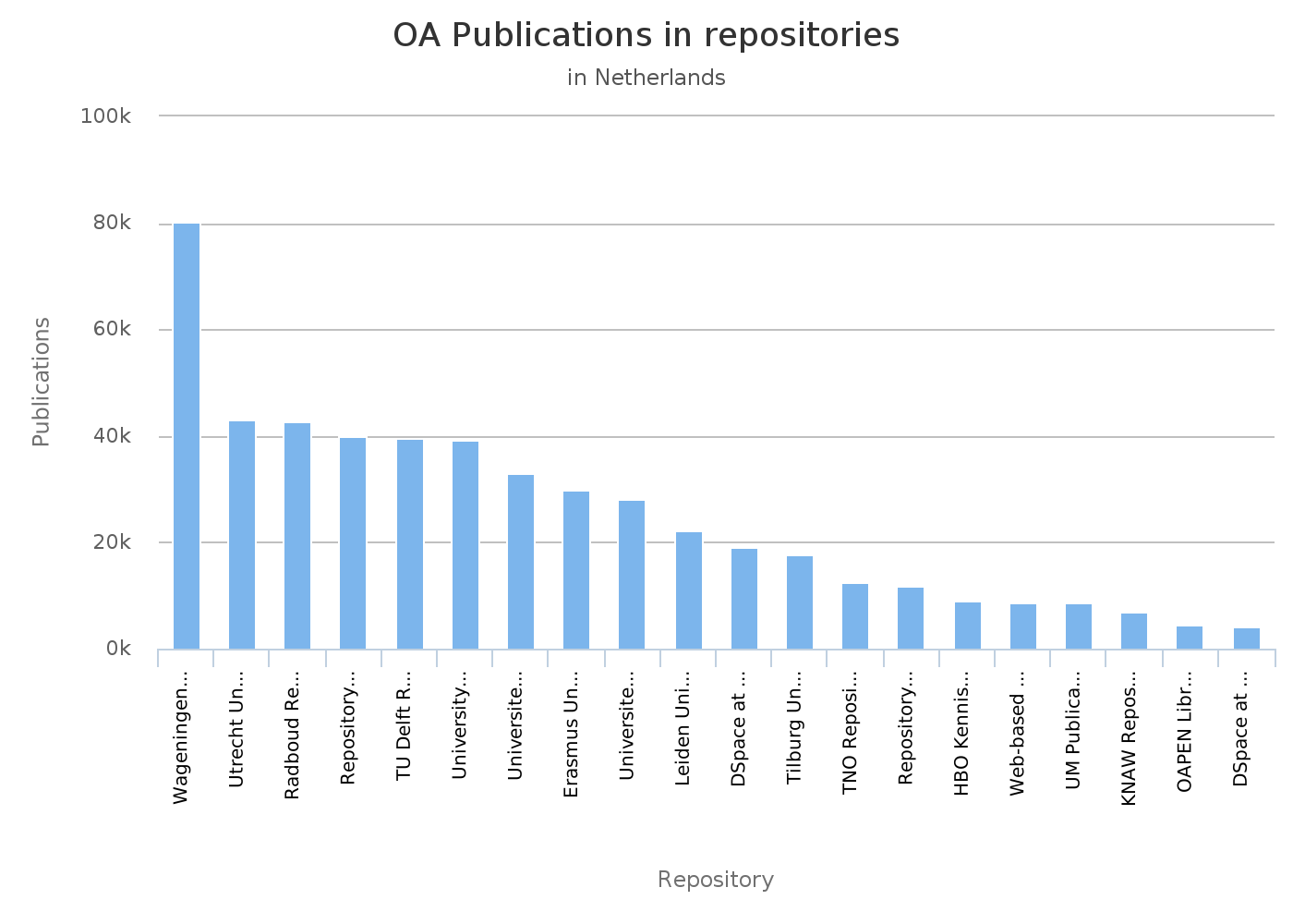 Bar graph describing open access to scholarly communication in the Netherlands. Repositories with the largest number of digital assets: Wageningen Staff Publications, Utrecht University Repository, Radboud Repository, University of Groningen Research Database, Repository TU/e, TU Delft Repository, Universiteit van Amsterdam Digital Academic Repository, Erasmus University Institutional Repository, Universiteit Twente Repository....